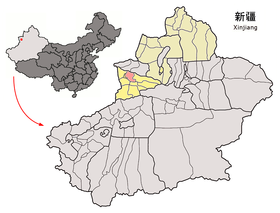 Location of Yining County (pink) and Ili Prefecture (yellow: subdivisions under direct administration of Ili Prefecture, ecru: subdivisions under administration of Tacheng and Altay Prefectures) within Xinjiang autonomous region of China Map drawn in september 2007 using various sources, mainly : Xinjiang Uygur autonomous region administrative regions GIS data: 1:1M, County level, 1990 Xinjiang Counties map from